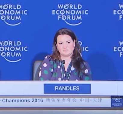 Amanda Randles speaking at the World Economic Forum's Annual Meeting of the New Champions in 2016